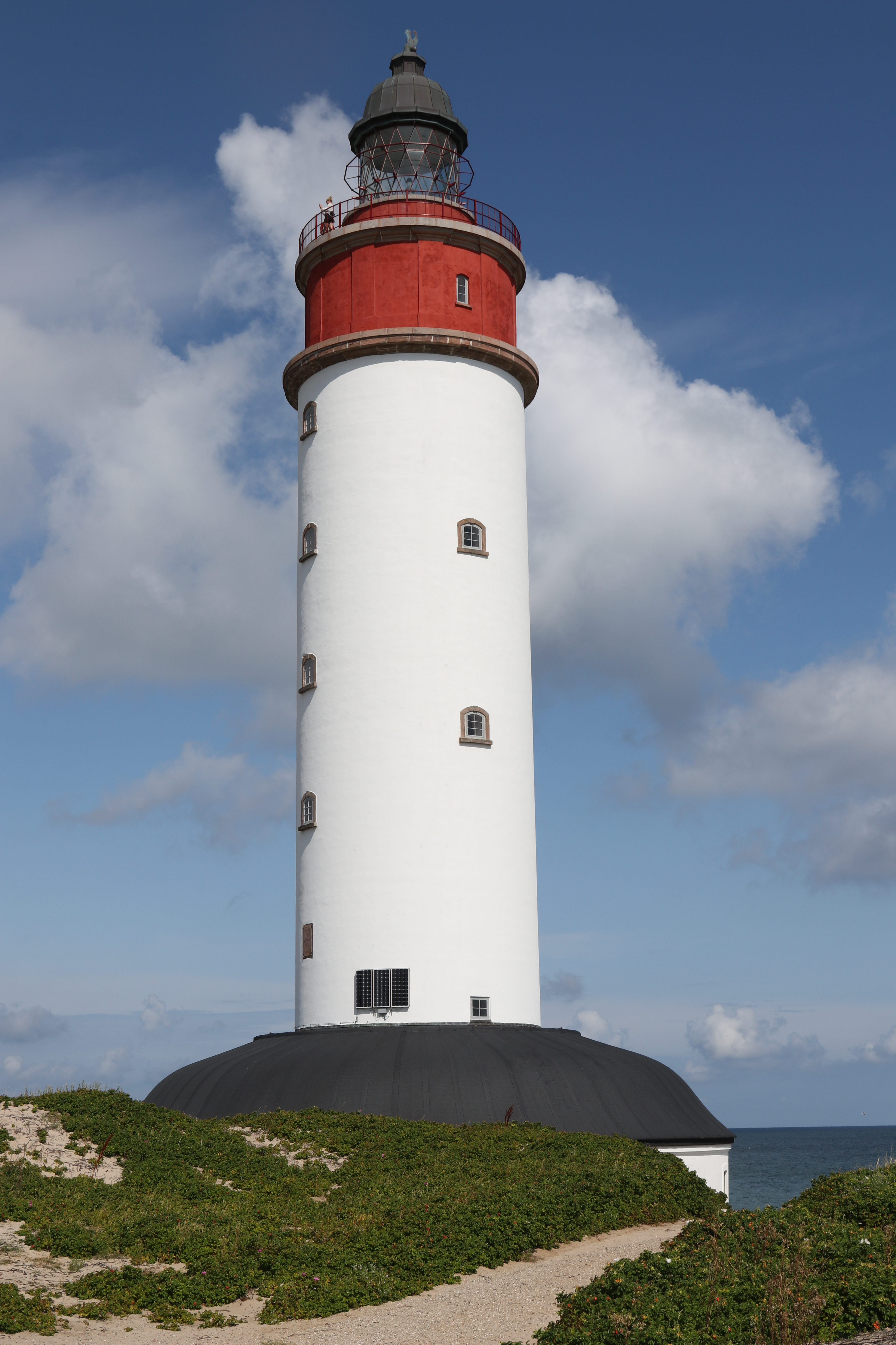 Anholt lighthouse with (below) casemate from the English occupation of the island